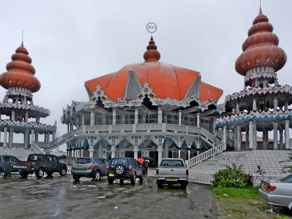 Exterior of the Arya Dewaker Temple, Paramaribo, Suriname